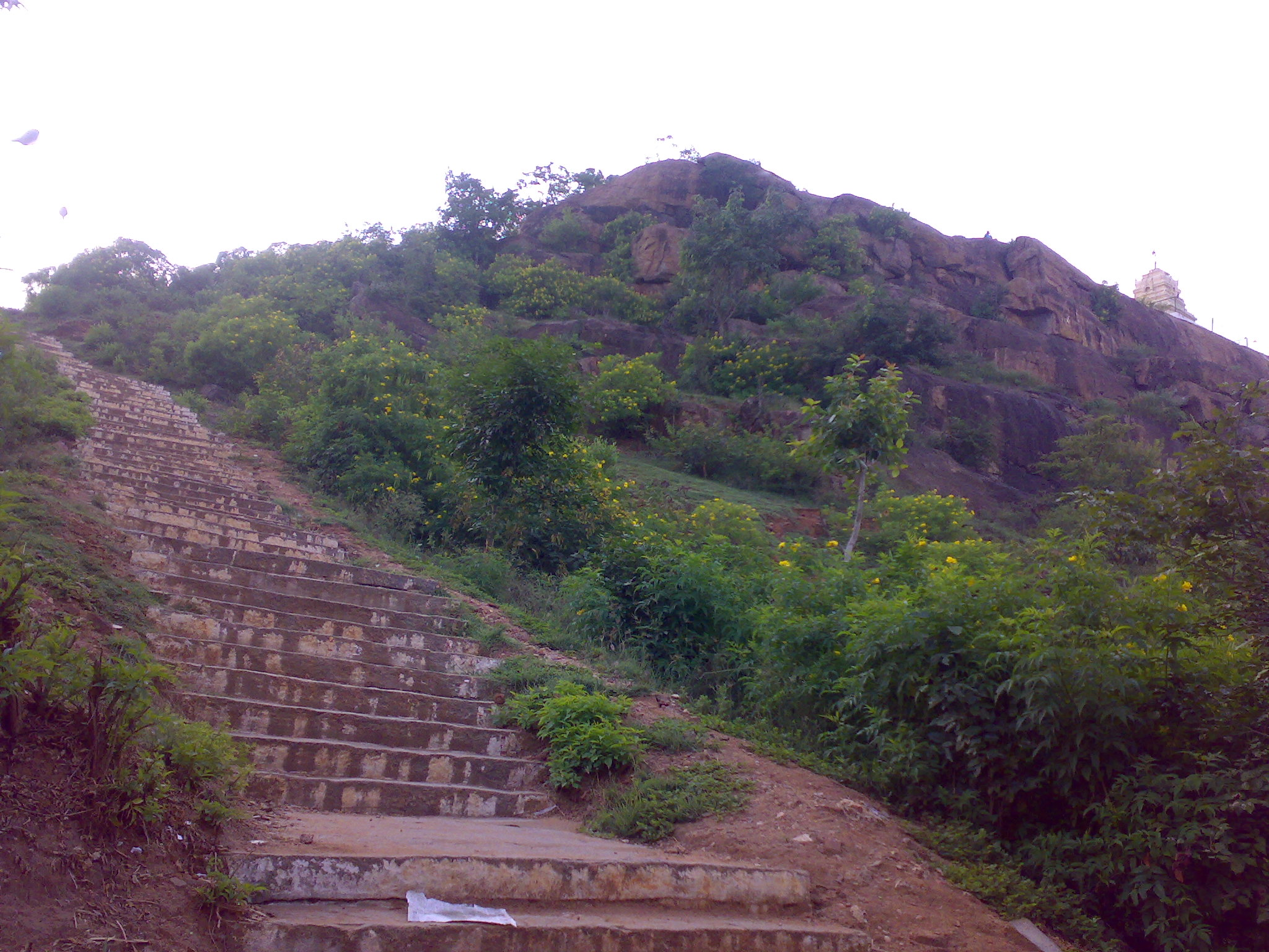 Maradigudda : A sacred rock mountain at the heart of Kollegal City